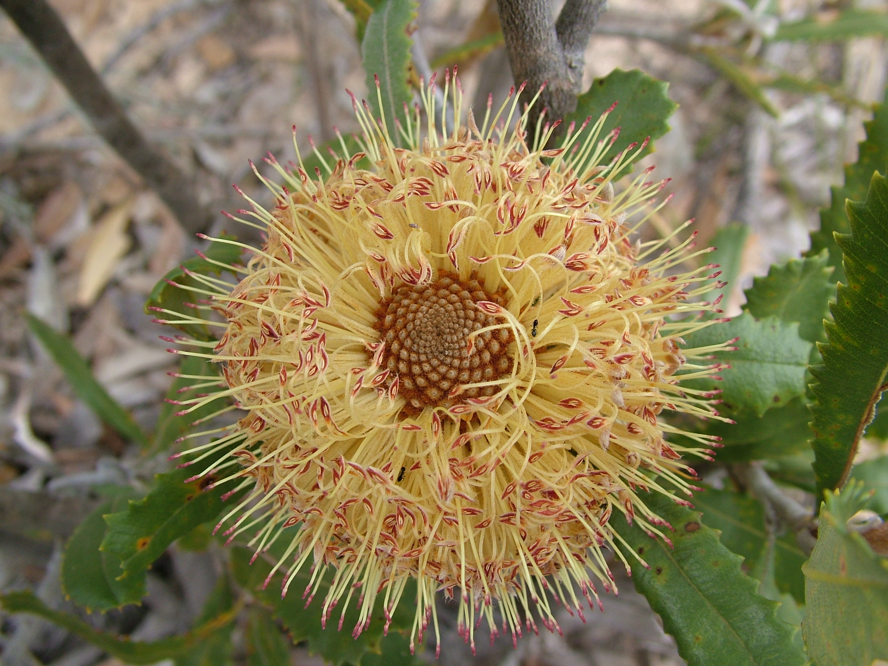 Banksia ornata, Wail State Forest, Victoria, Australia, Oct. 2009